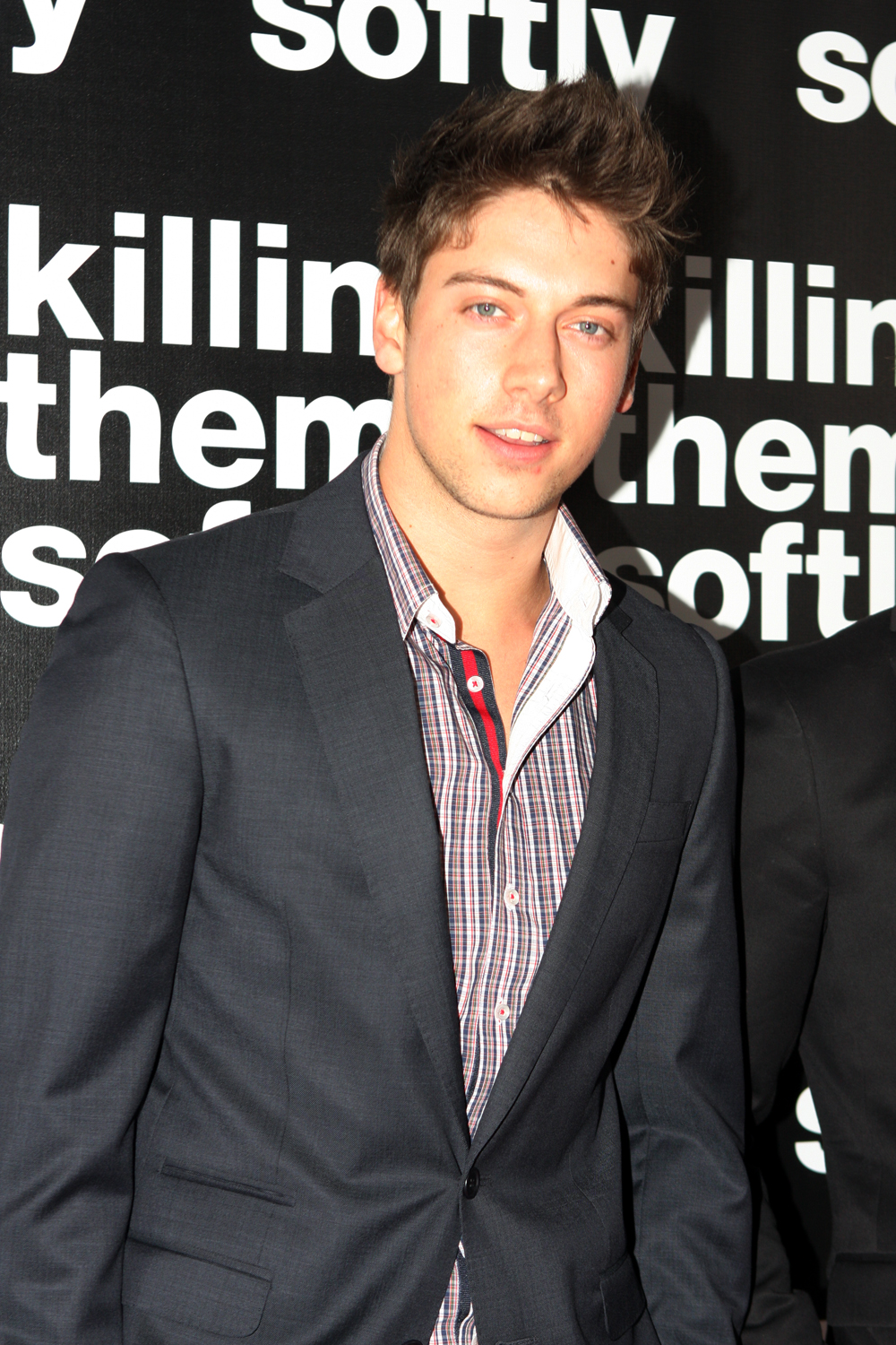 Killing Then Softly movie premiere at Dendy Opera Quays 'Killing Them Softly' enjoyed its Sydney, Australia movie premiere at Dendy Opera Quays this evening. Writer/ director Andrew Dominik (Chopper, The Assassination of Jesse James by the Coward Robert Ford) and star of the film Ben Mendelsohn (The Dark Knight Rises, Animal Kingdom) will attend the Australian premiere of KILLING THEM SOFTLY on Monday 24 September. Other guests attending include Bella Heathcote, Aaron Glenane, Brenna Harding, Elizabeth Blackmore, Felix Willamson, Gillian Armstrong, James Frecheville, John Jarratt Khan Chittenden, Krew Boylan, Leanna Walsman, Mary Coustas, Matthew Nable, Peter Phelps, Sacha Horler, Samara Weaving, Sarah Snook, Sean Keenan and Toby Schmitz. Adapted from George V. Higgins novel and set in New Orleans, Killing Them Softly follows professional enforcer, Jackie Cogan (Pitt), who investigates a heist that occurs during a high stakes, mob-protected poker game. Plot: Jackie Cogan is a professional enforcer who investigates a heist that went down during a mob-protected poker game. Director: Andrew Dominik Writers: Andrew Dominik (screenplay), George V. Higgins (novel) Stars: Brad Pitt, Ray Liotta and Richard Jenkins IN CINEMAS 11 OCTOBER 2012 Websites Killing Them Softly Dendy Cinemas Eva Rinaldi Photography Eva Rinaldi Photography Flickr Music News Australia Nixco